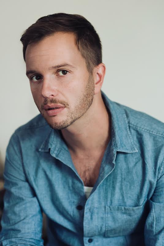 self portrait